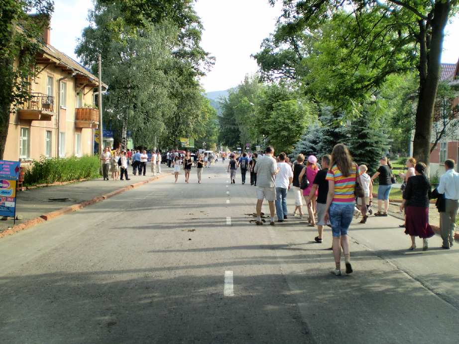 Central street of Yaremche, Ukraine.